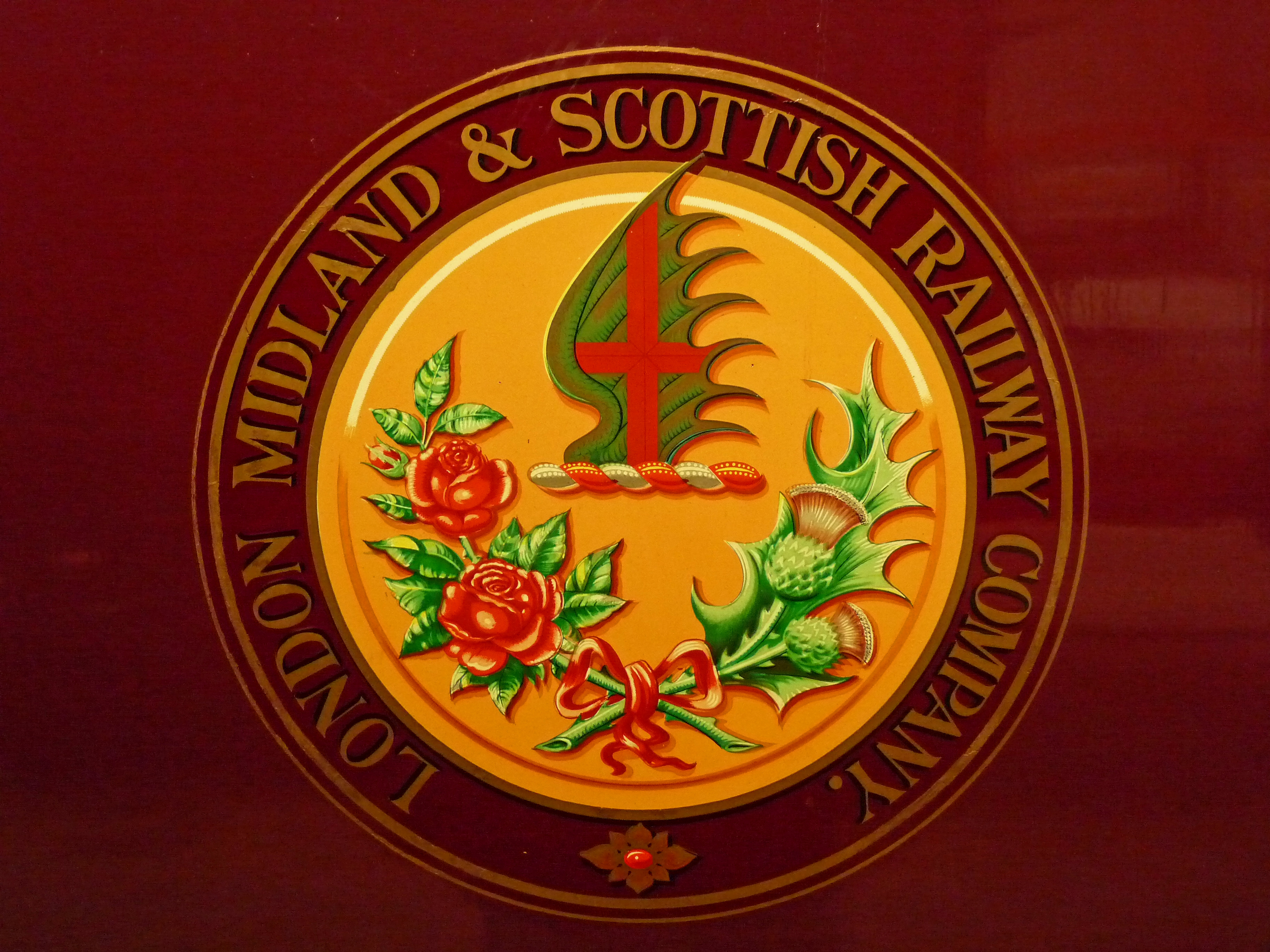 Preserved Railway Coach Logo